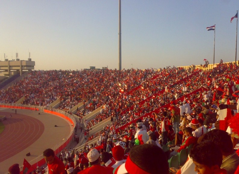 Football is the favorite sport in Oman - Crowds came out in thousands to cheer for the Omani Football Team when Muscat hosted the 19th Gulf Cup of Nations